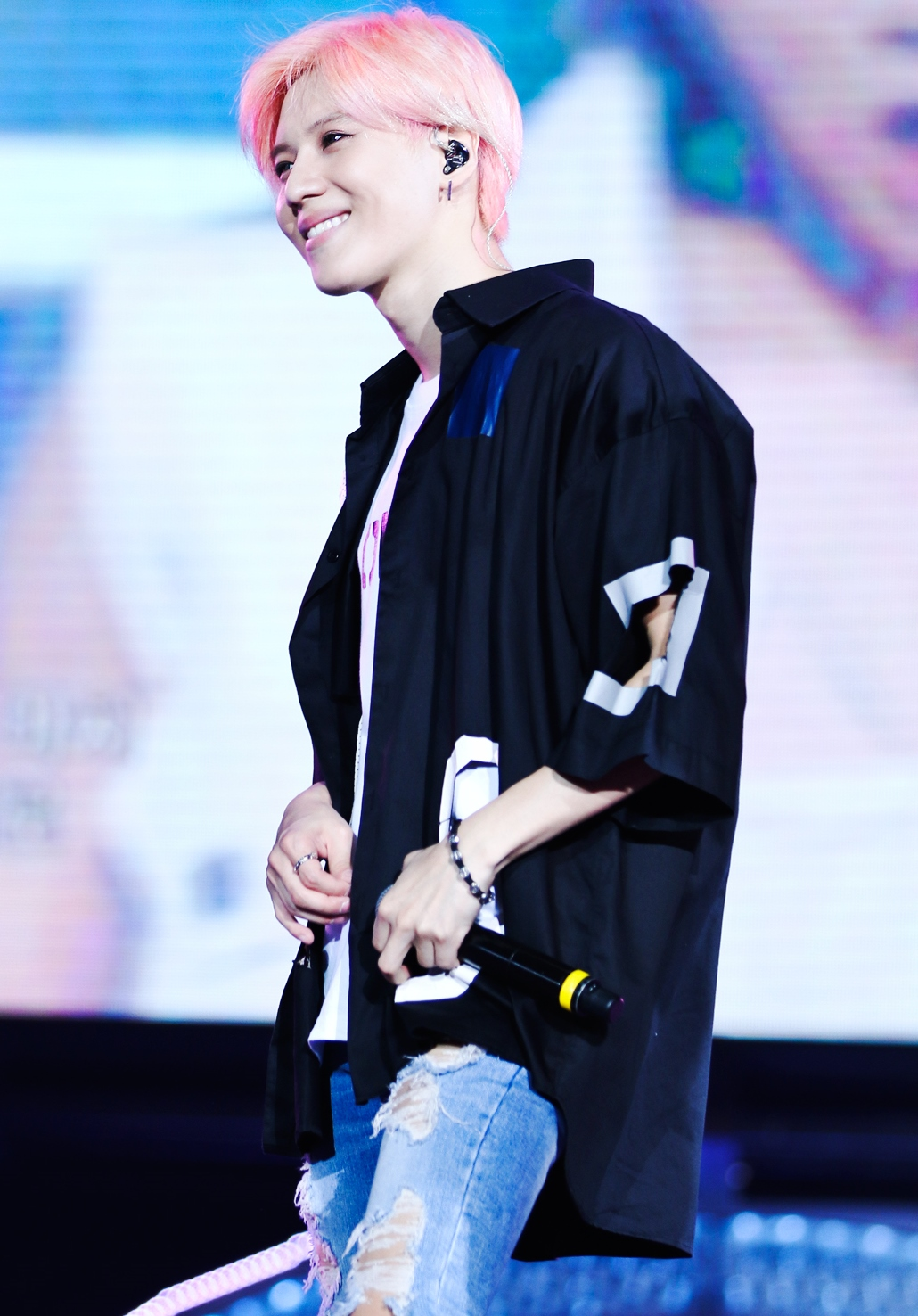 Taemin at SHINee World Ⅳ in Shanghai on October 25, 2015